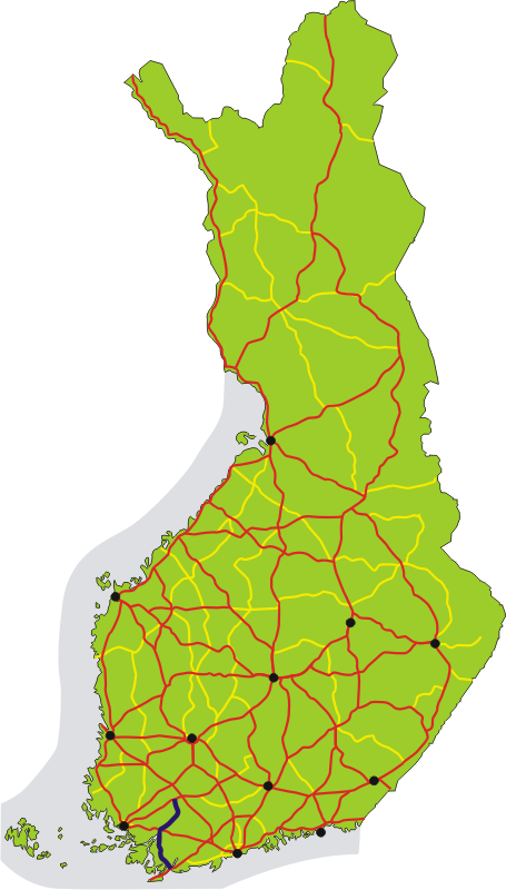 Map of the main road 52 in Finland, shown in dark blue. The other 1st class main roads (numbers 1–29) are red, 2nd class main roads (numbers 40–98) yellow. Black dots show the 12 biggest urban areas.